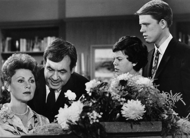 Photo of the Cunningham family from the television program Happy Days. Pictured are Marion Ross (Mrs. Cunningham), Tom Bosley (Mr. Cunningham), Erin Moran (Joanie Cunningham) and Ron Howard (Richie Cunningham).